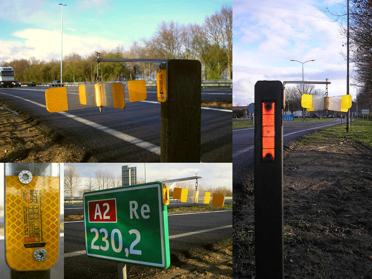 Roadside reflector units called "Wildspiegel" (Wildlife mirror) to keep wildlife from crossing motorways at night. Tested in the Netherlands 2007-2008; seem to fulfill their purpose.